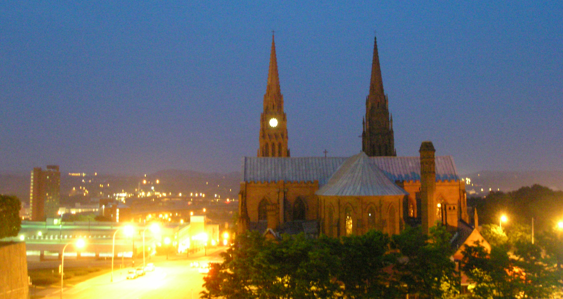 The Cathedral of the Immaculate Conception in Albany, NY as photographed 31 May 2007.